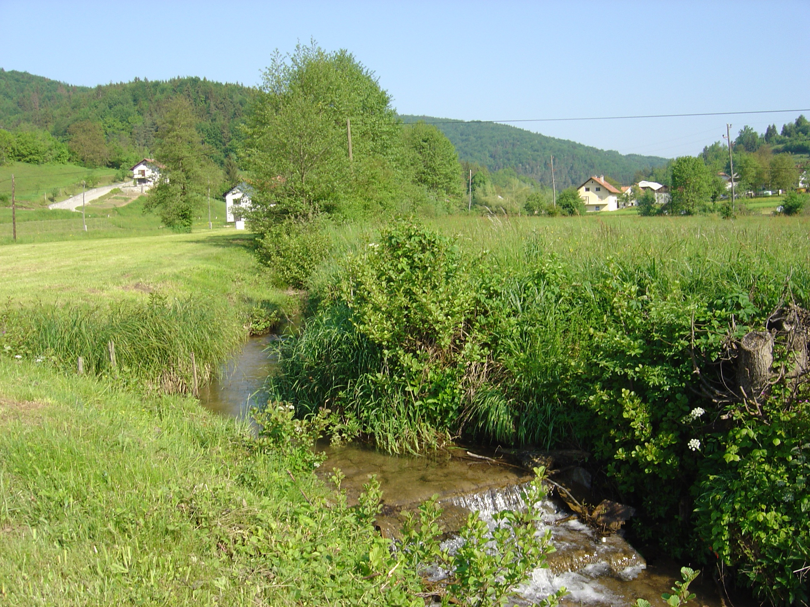 Temenica river near Sobrače, Slovenia (2004)